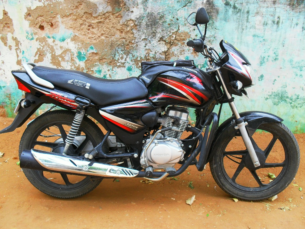 Honda_Shine 2009 model